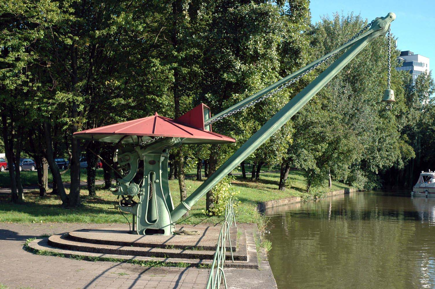 ancient crane of 1830 next to the Wilhelm's canal in Heilbronn (Germany)